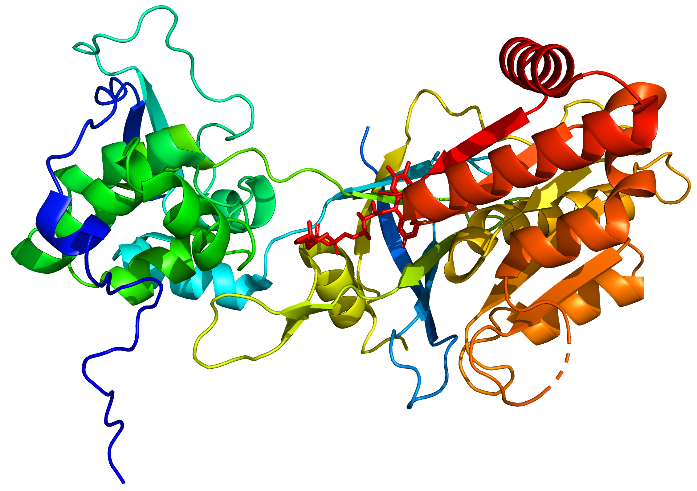 Ribbon diagram of a human (methionine synthase) reductase (MTRR), PDB: 2QTL​. Created using PyMOL ( and GIMP. All solvent molecules removed.